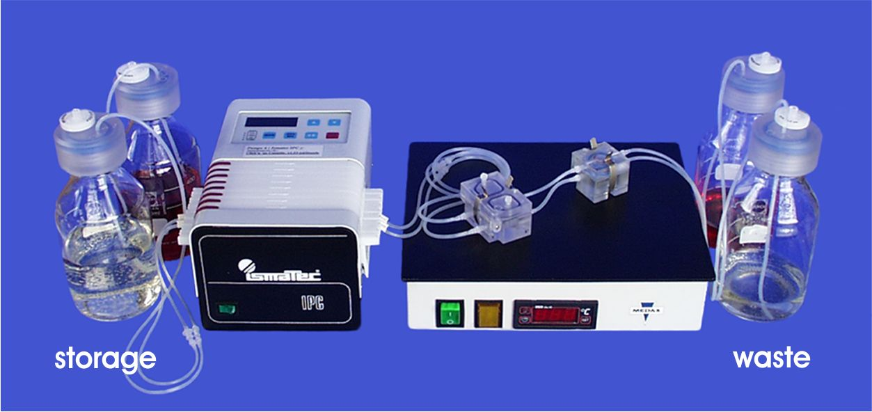 Minusheet gradient perfusion culture line